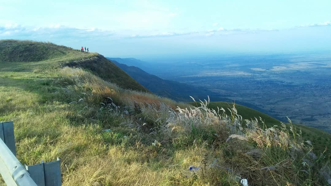 This area is in the great east African rift valley. This picture was taken at the Kawetere on the road to Chunya district.